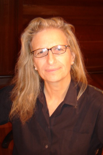 American photographer Annie Liebovitz.